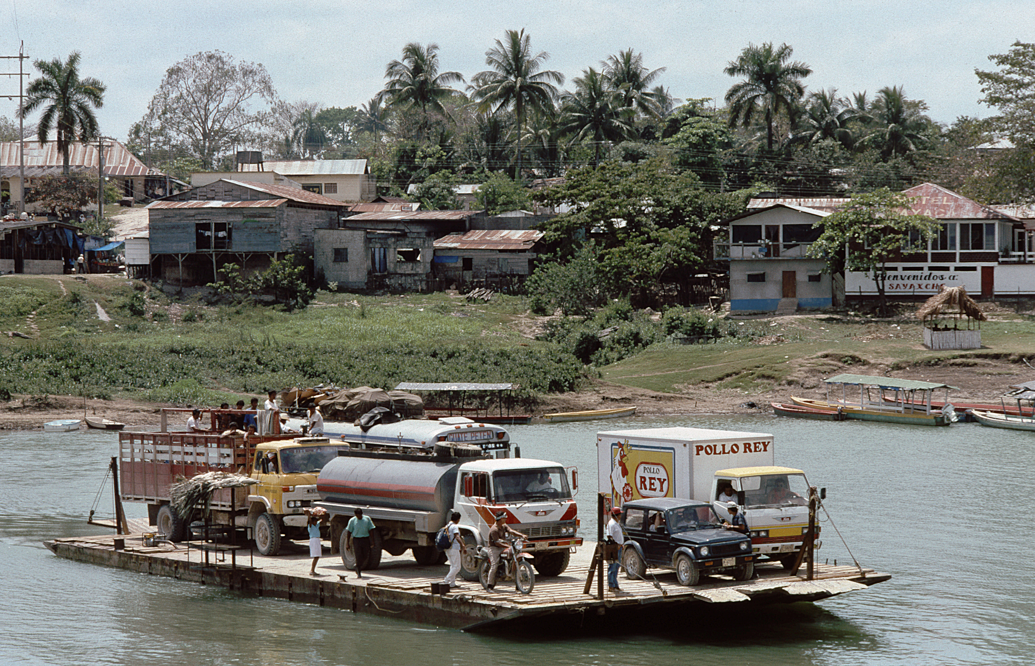 Car ferry at the river Rio de la Pasion in Guatemala